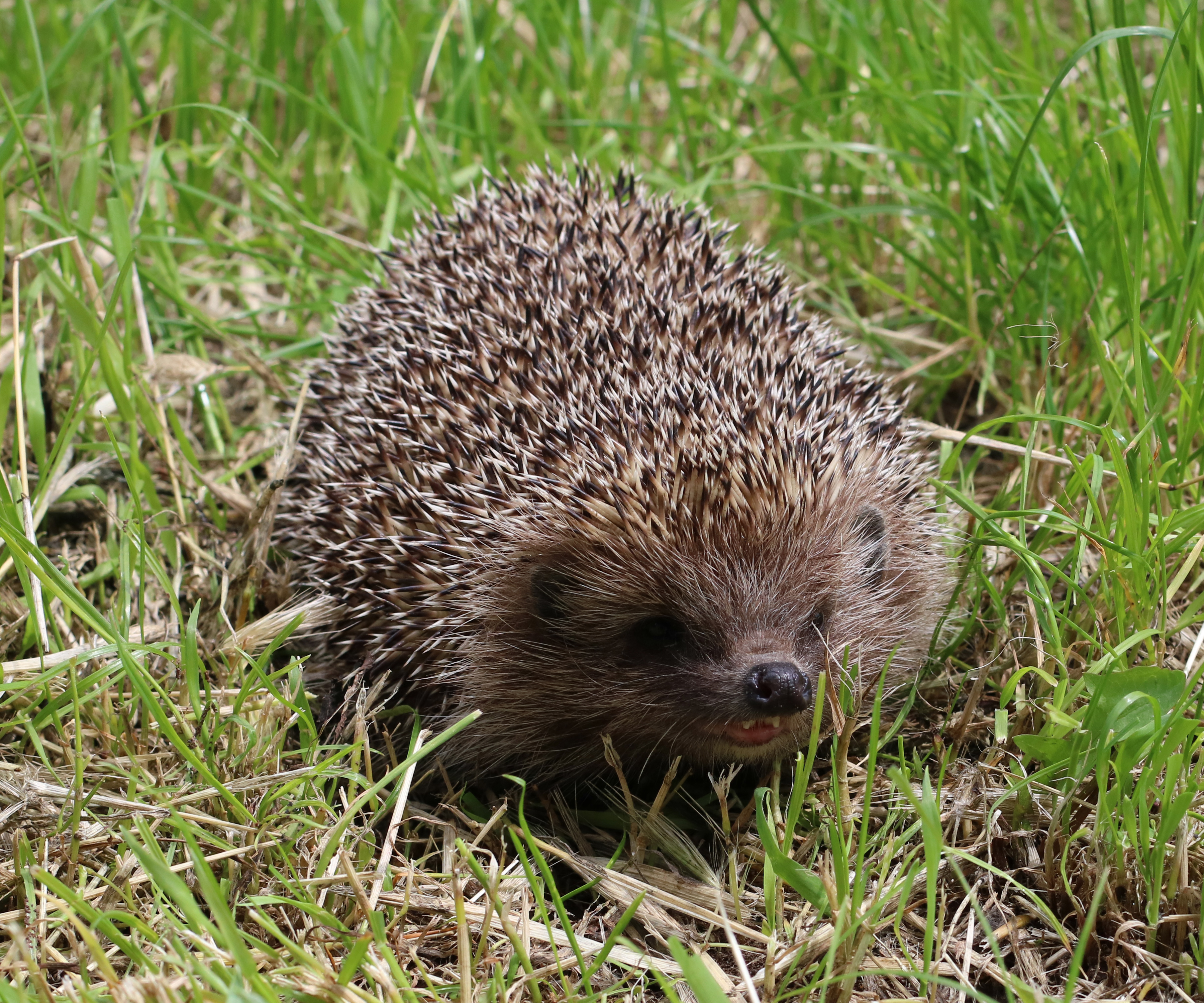 Northern white-breasted hedgehog. Ukraine. Photo taken in the wild.